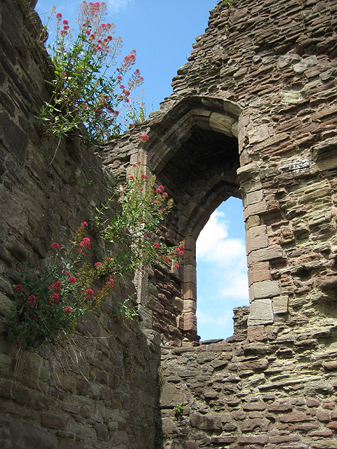 Window detail, Great Tower, Monmouth Castle With cheerful red valerian rooted in the ancient stonework.